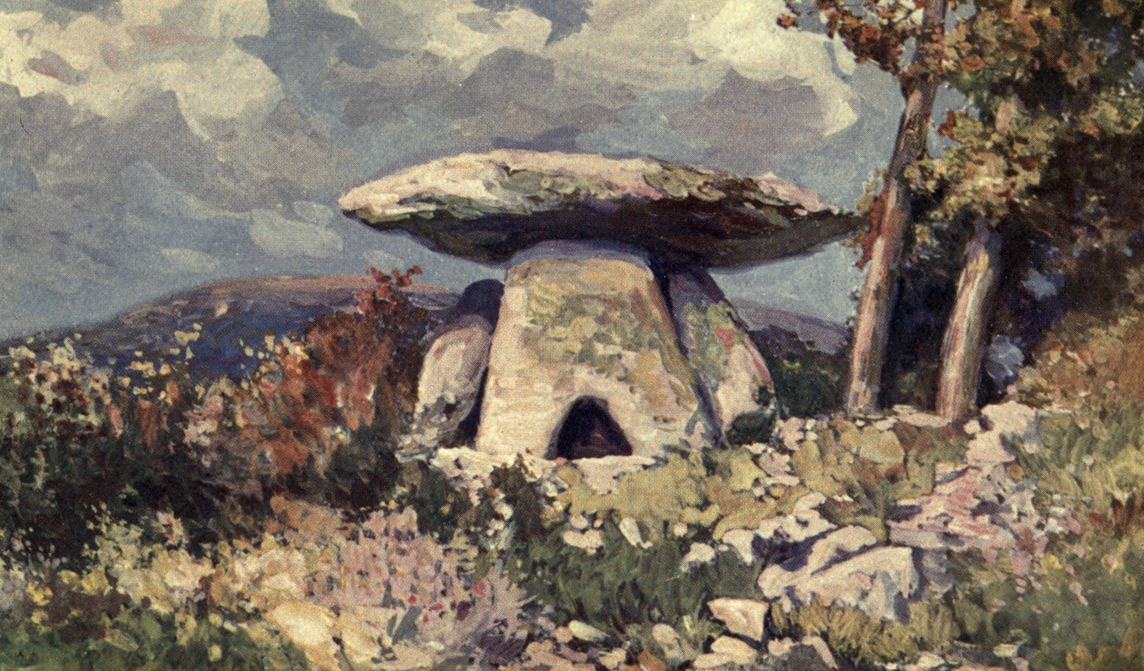 Image from scanned version of "A Book of The Cevennes" by Sabine Baring-Gould, from published in 1907 and in the Public Domain.